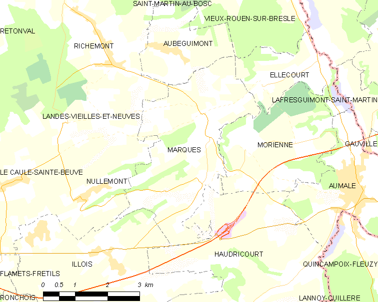 Map of French municipality Marques